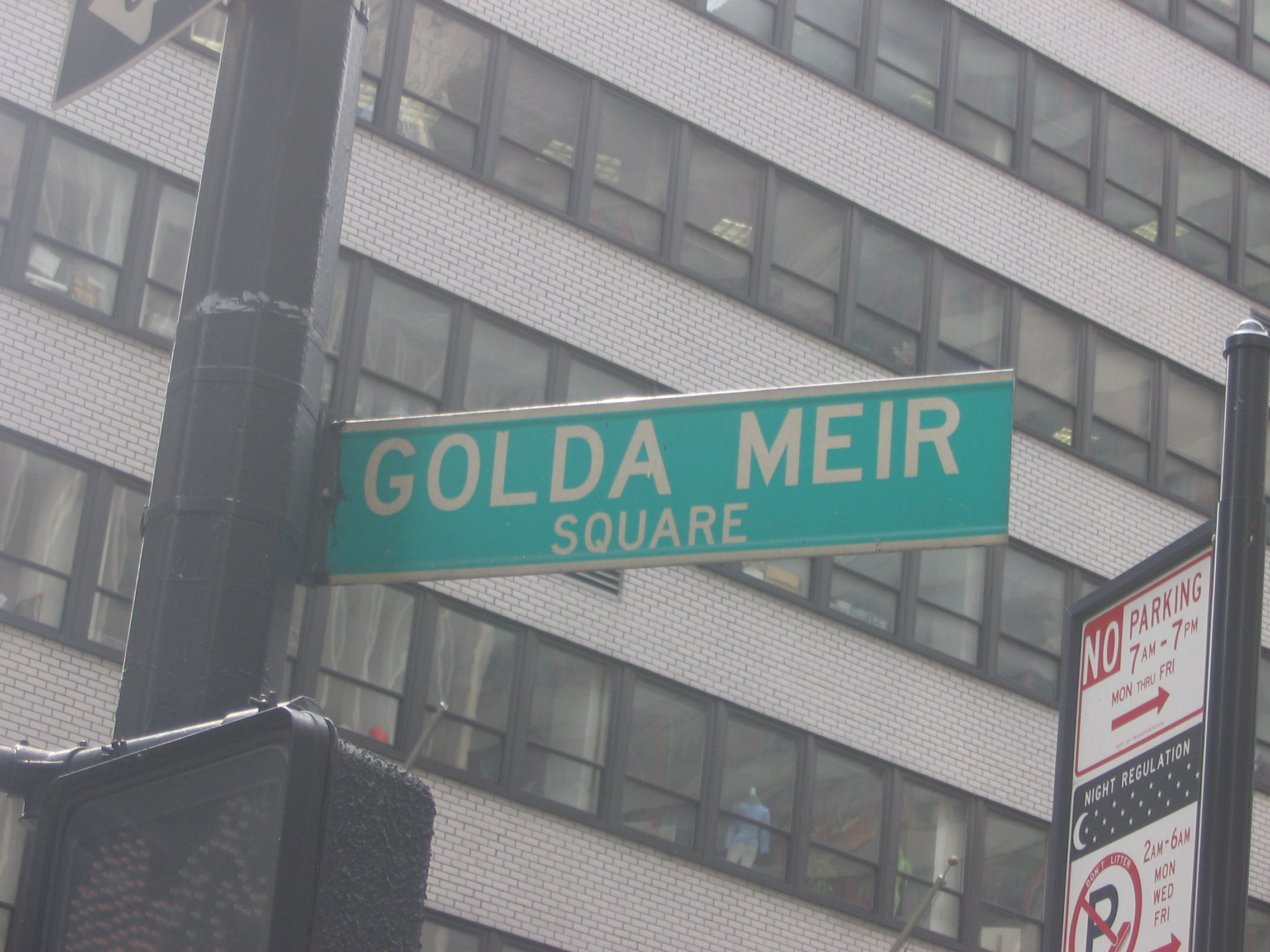 Golda Meir Square in Manhattan, NYC, NY.